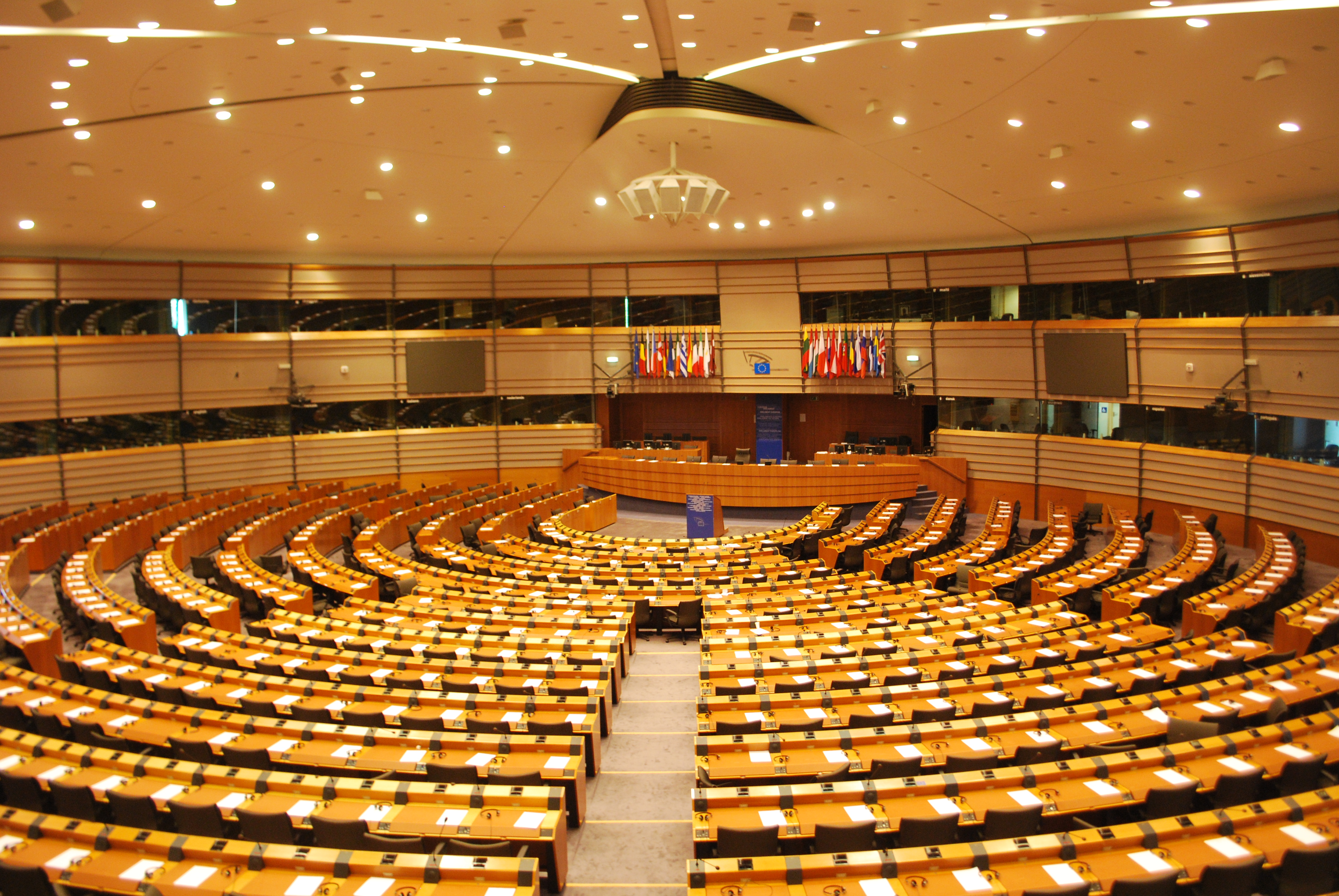 The hemicycle of the European Parliament in Brussels.